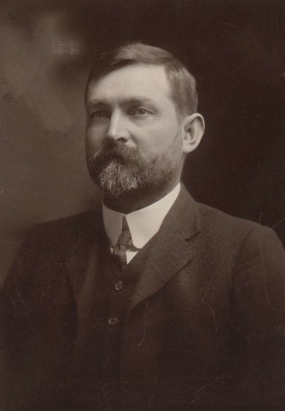 [Portrait of John Watson] [picture] 1908. 1 photograph : gelatin silver, sepia toned ; 13.9 x 9.2 cm. Part of Members of the Australian Labor Party, Third Commonwealth Parliament, 15 December 1908